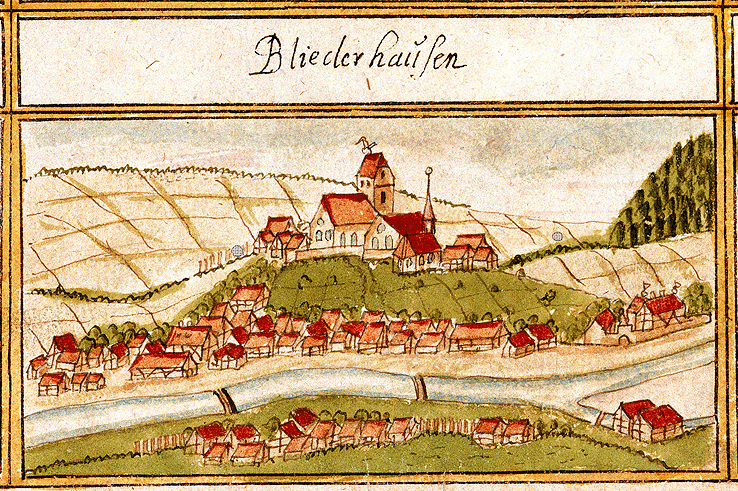 View of Plüderhausen from the forest register books created by Andreas Kieser